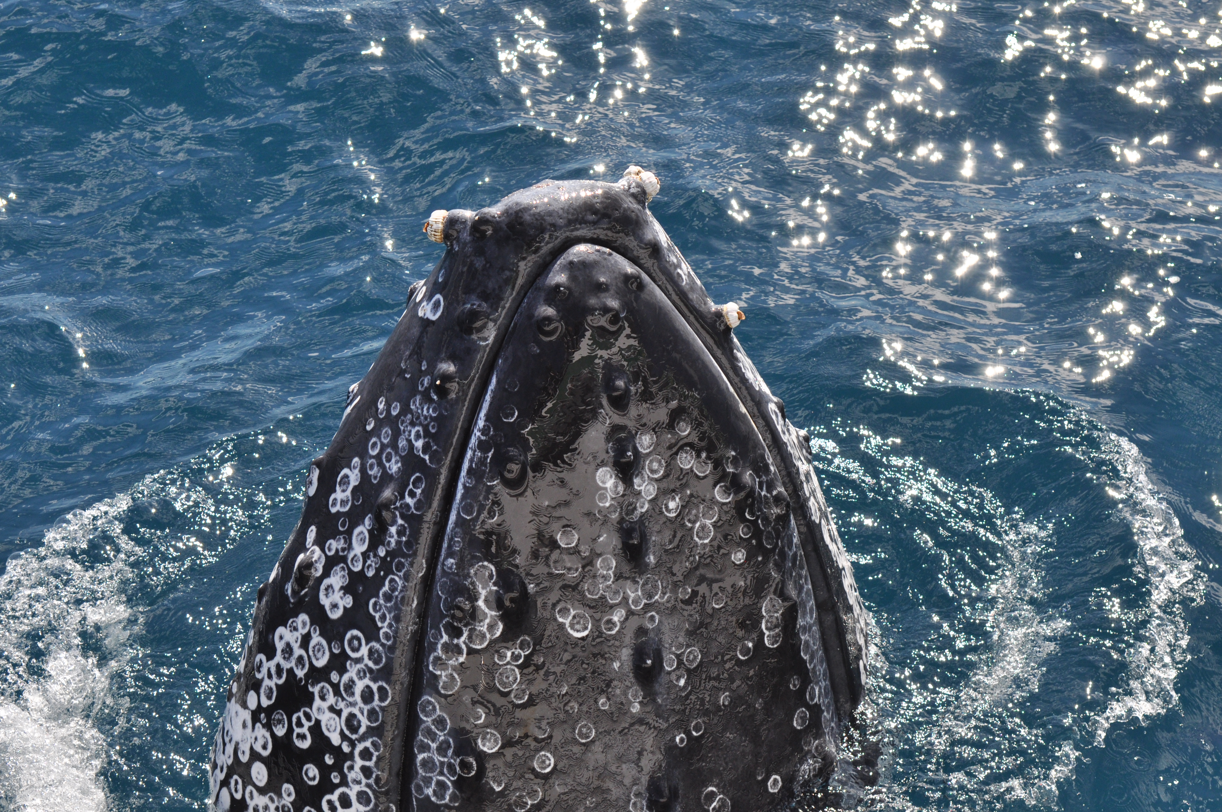 Barnacled Humpback